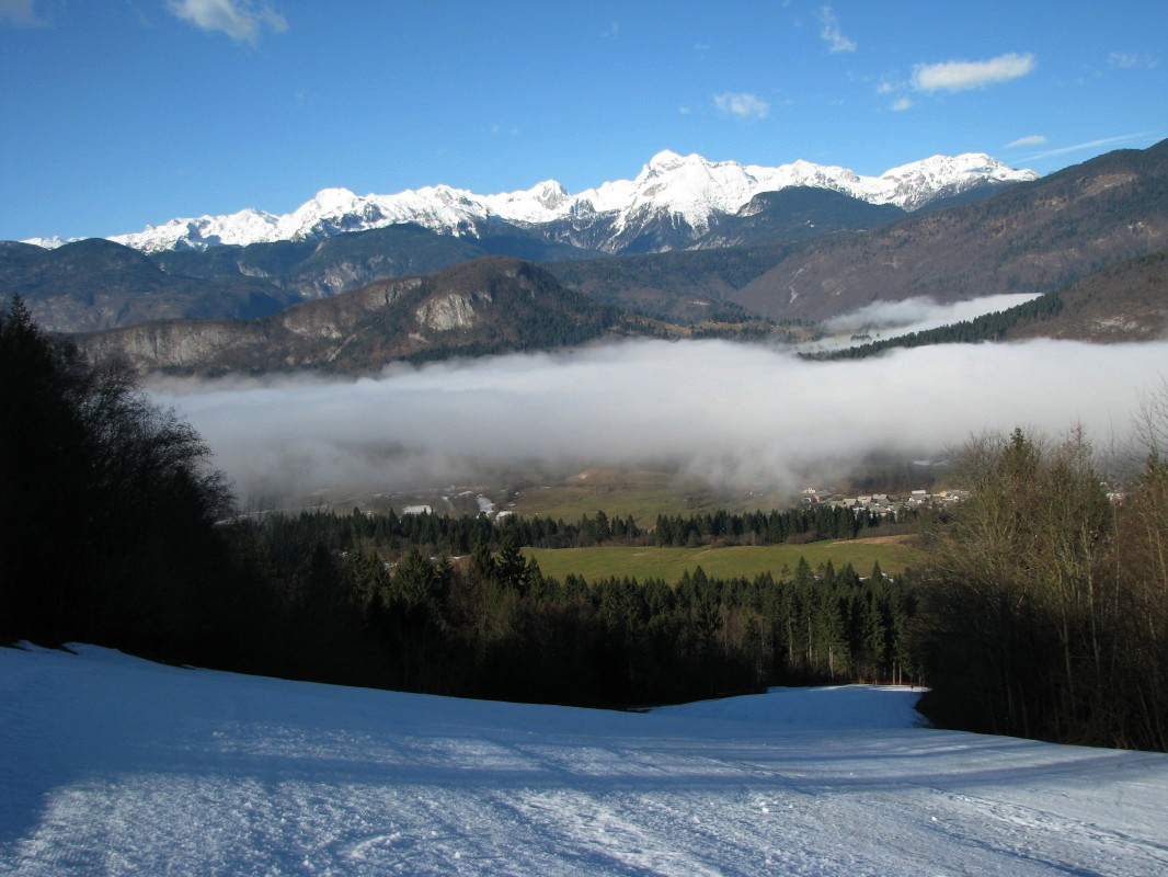 Julian Alps as seen from above Bohinjska Bistrica.